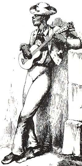 Faithful reproduction of a Cuban print from the 19th Century.